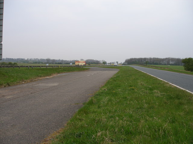 The old A19 dual carriageway leaves the new A19 Looking at the map, the viewer may be confused by two roads being named the A19! The foreground road to the left is now cut off. The road to the right is now a slip road from the new A19. The traffic at the top of the picture is travelling on the new A19.